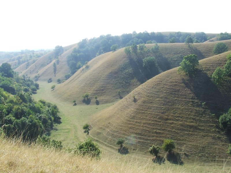 Šušara dune